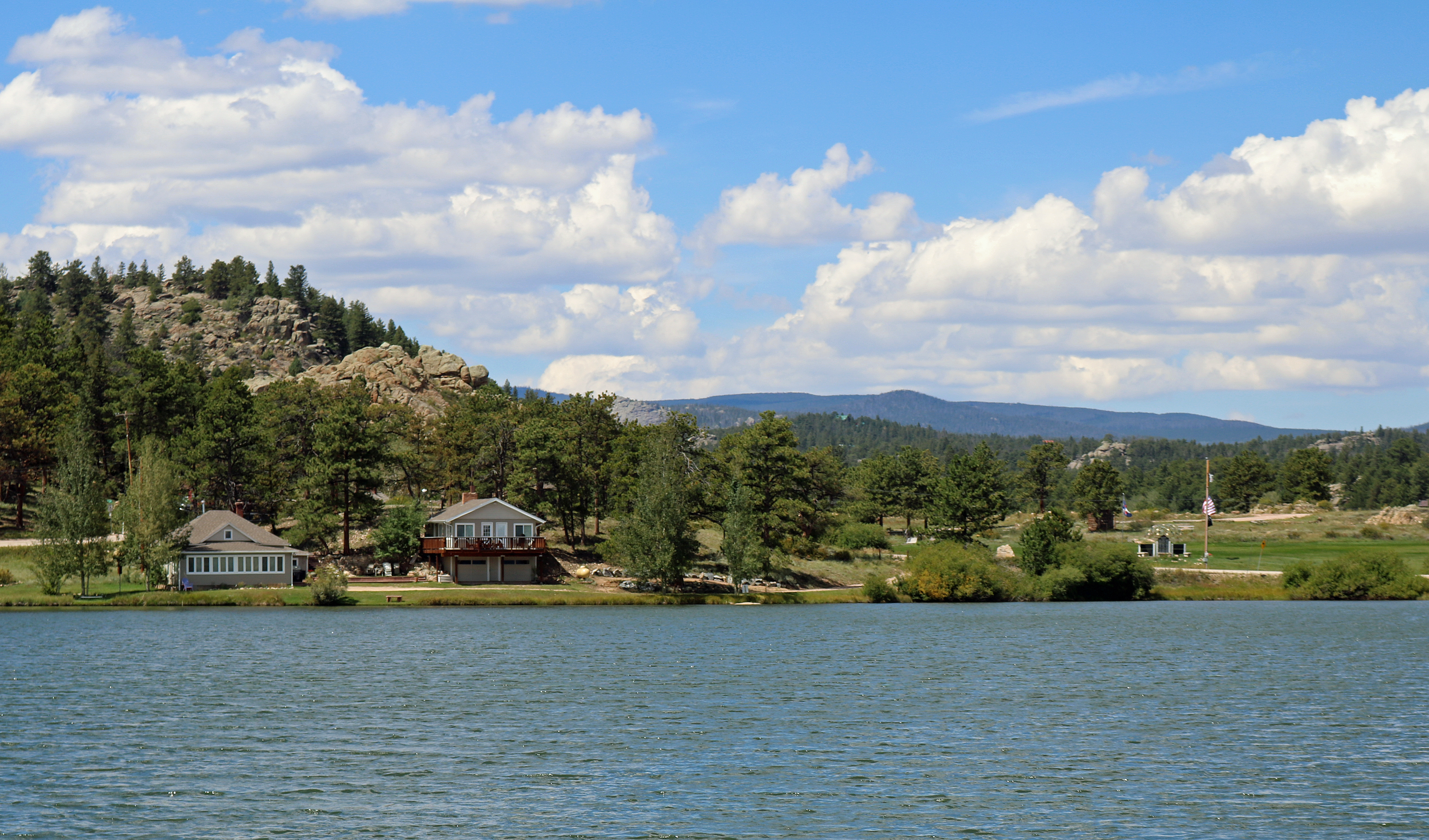 The community of Red Feather Lakes, Colorado. The view shows part of Ramona Lake and two dwellings. To the right, the grassy area is the community park and veterans memorial. Main Street with its shops and restaurants is just out of the picture on the right side.